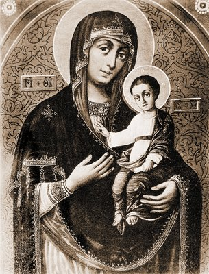 Il'insk-Chernigov Icon of the Mother of God. The photo was published in 1911